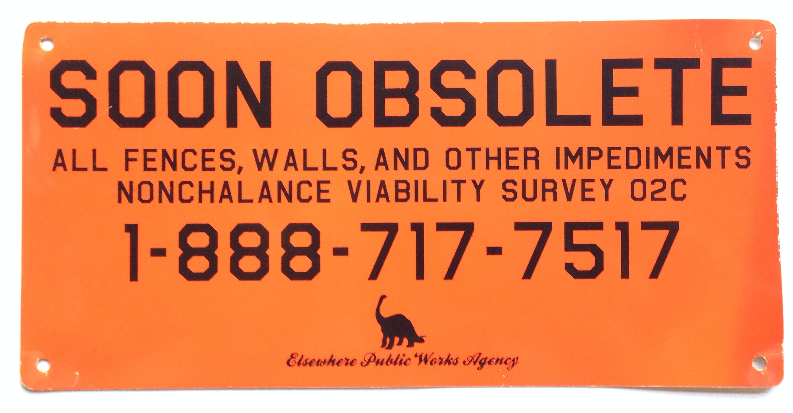 Metal sign made for the fictitious "Elsewhere Public Works" as part of alternate reality game "The Jejune Institute", played in and around San Francisco, CA 2007-2011[1] (nyt link, not ad link)